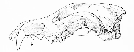 Canis armbrusteri skull left lateral